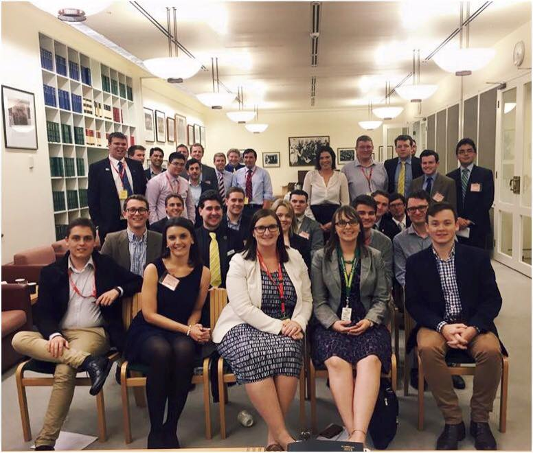 Federal Young Nationals at 2015 Conference in Canberra